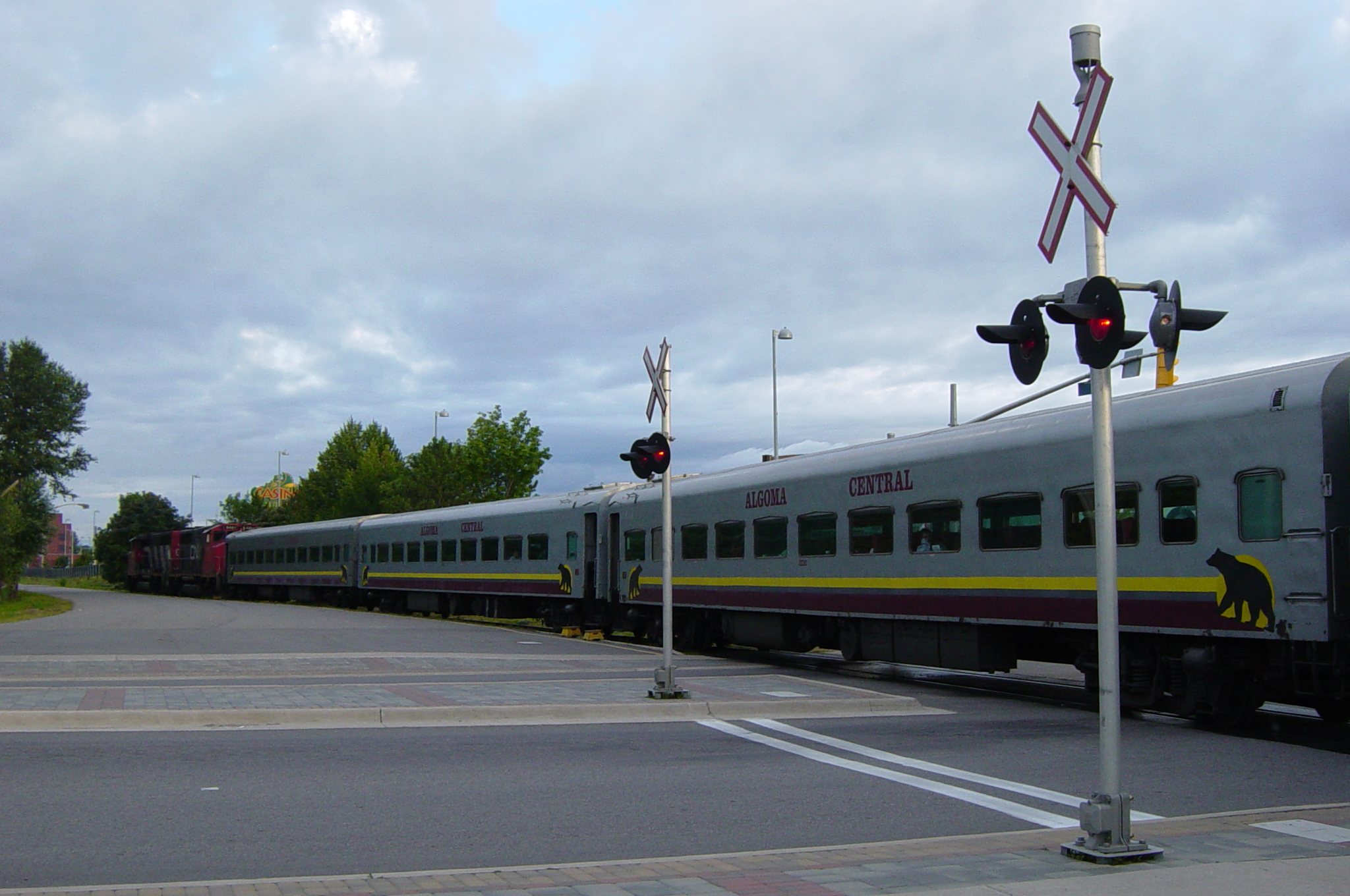 Algoma Central Railway's popular Agawa Canyon Tour Train, as viewed in Sault Ste. Marie, Ontarioen.